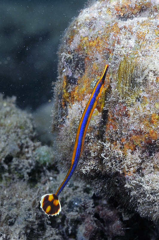 Doryrhamphus excisus in Reunion, 2011